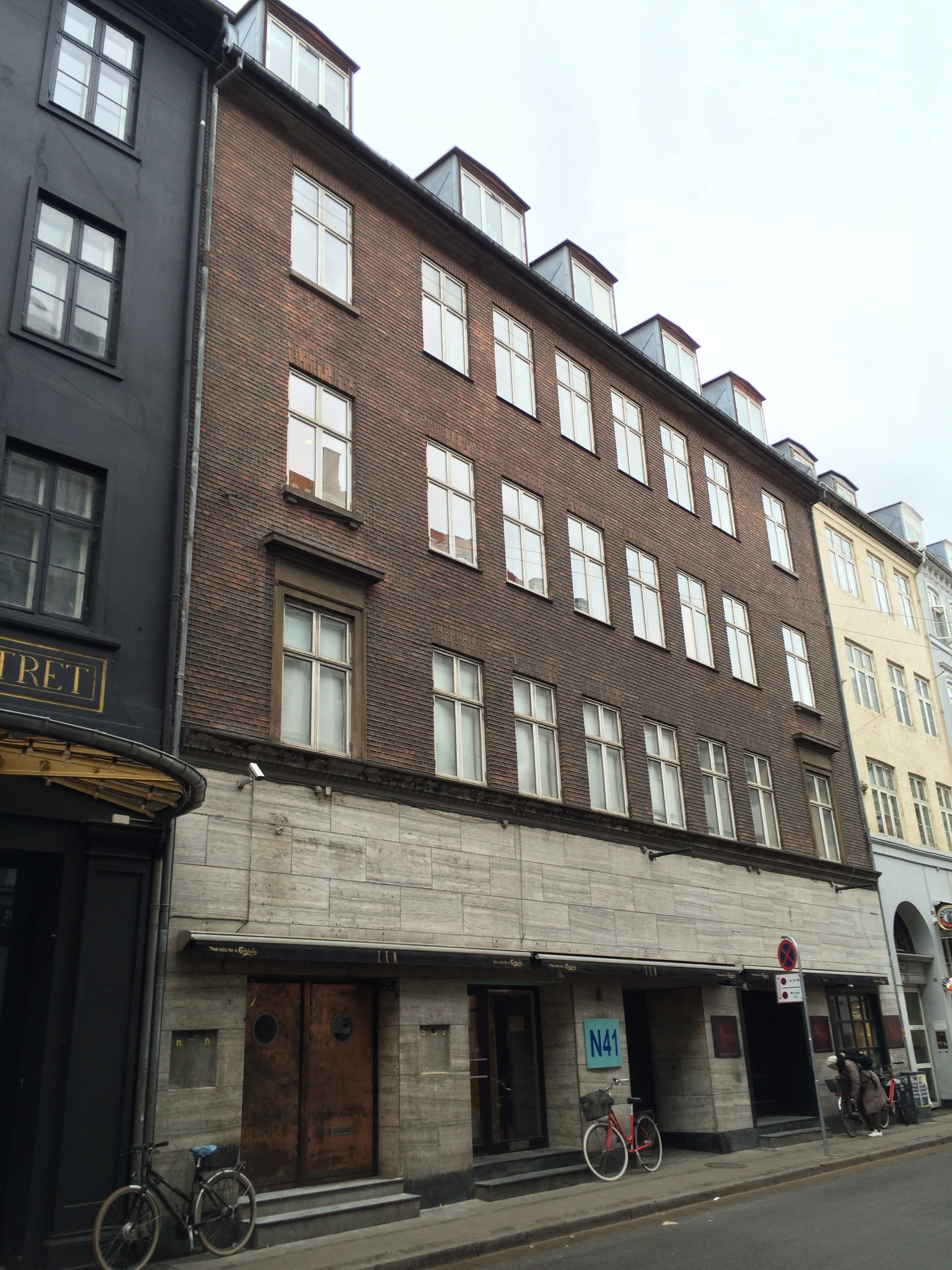 Nørregade 41, Copenhagen, Denmark in 2016